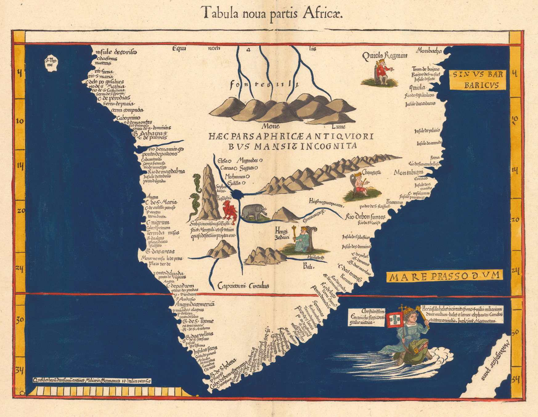 1513 map by Martin Waldseemüller “Tabula noua partis Africæ.” It ignores earlier references to a Sacaff or Saaph lake that relate it to the Nile and put it in Abyssinia (Ethiopia) and shows the Mountains of the Moon (Mone Lune) as the source of the Nile.